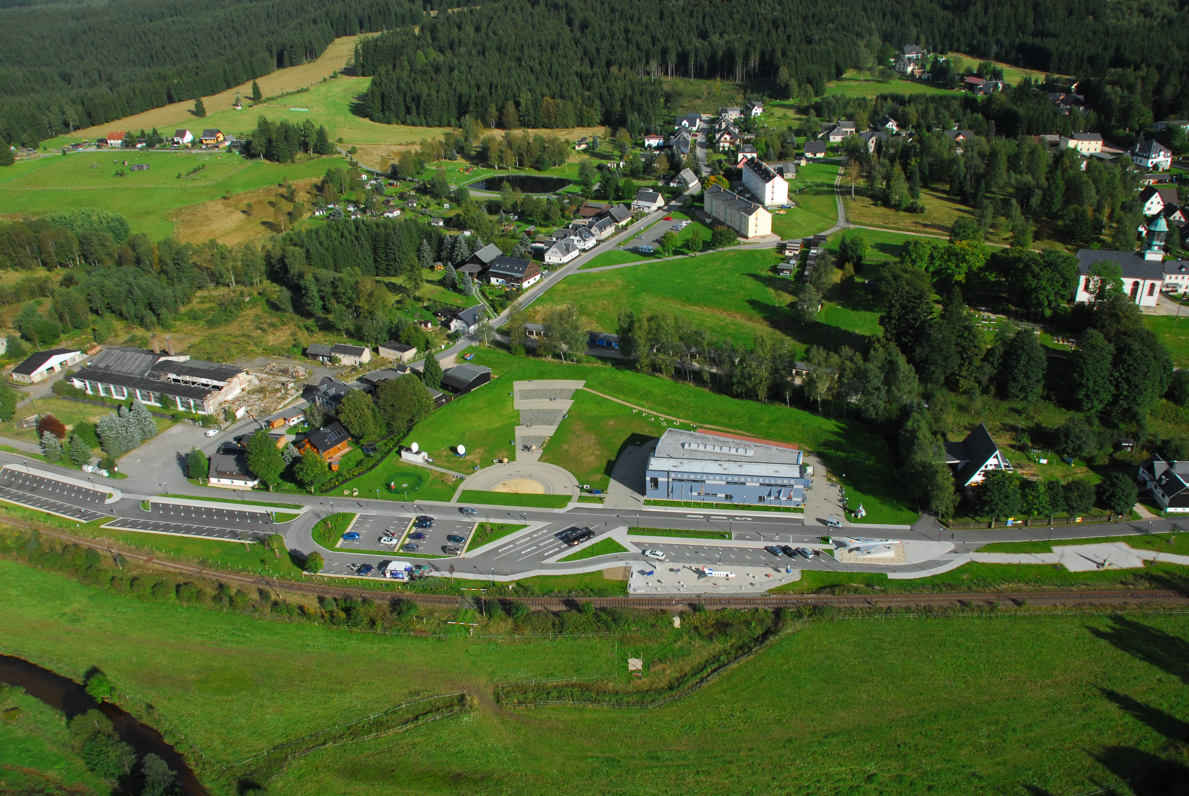 Morgenroethe-Rautenkranz space flight exhibition